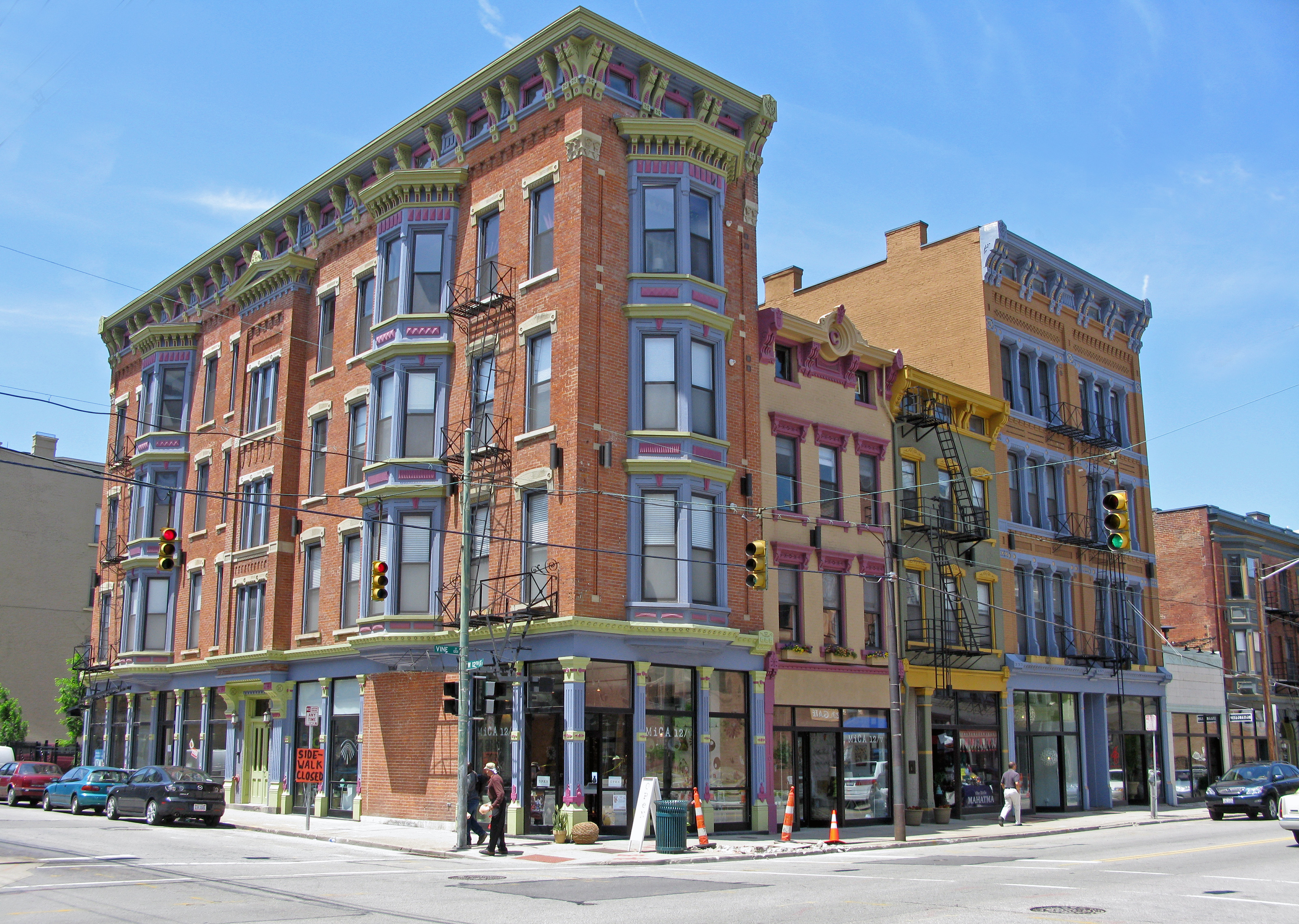 The Duncanson Lofts at 12th and Vine Streets in Over-the-Rhine, part of 3CDC's "Gateway Quarter."